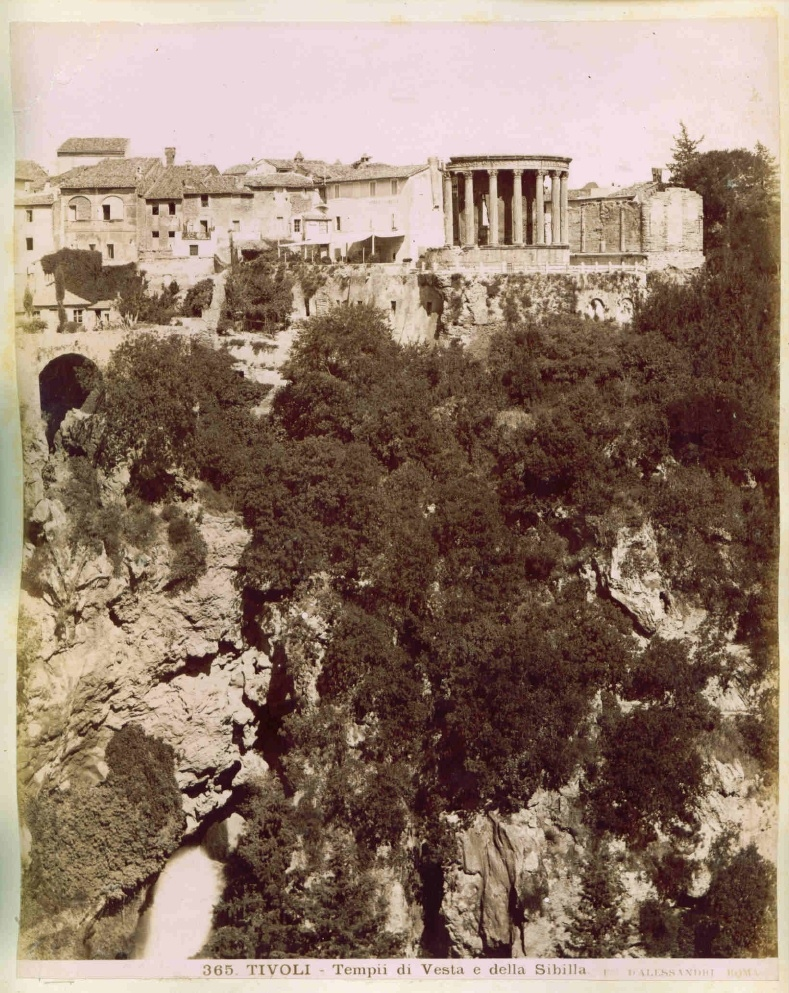 Tivoli - Temples of Vesta and of the Sybil. Catalogue # 365.